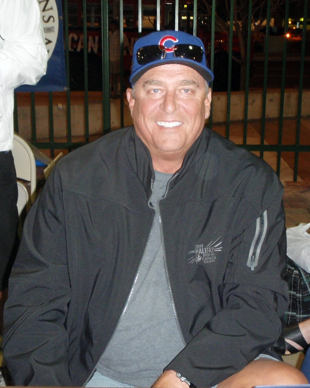 Ralph Pierre "Pete" LaCock, Jr., born January 17, 1952, in Burbank, California, is a former Major League Baseball first baseman/outfielder. In nine seasons (715 games), he hit 27 home runs with 224 RBI and a batting average of .257.